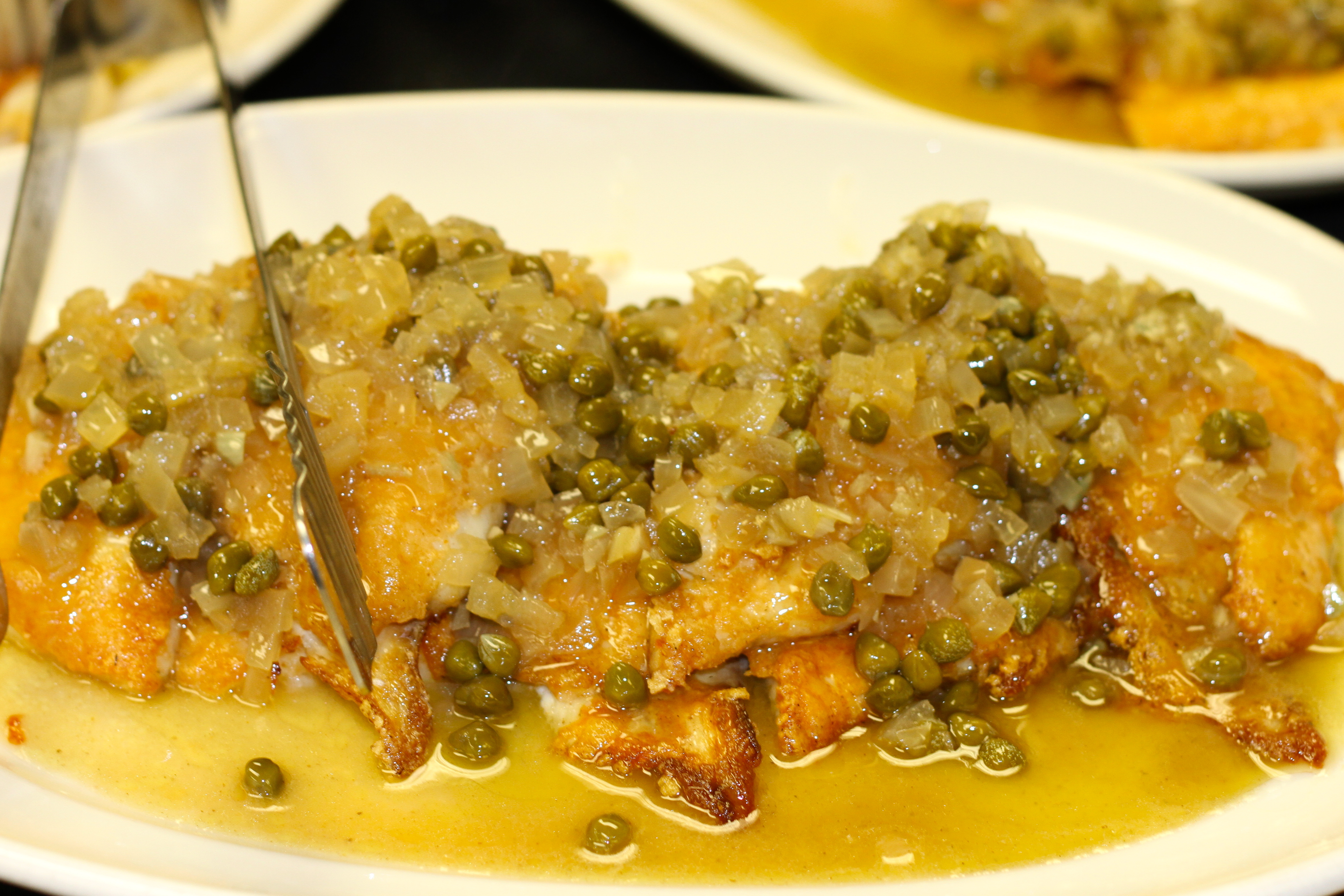 Parmesan Crusted Flounder with Meyer lemon & Capers Picatta sauce, served family style